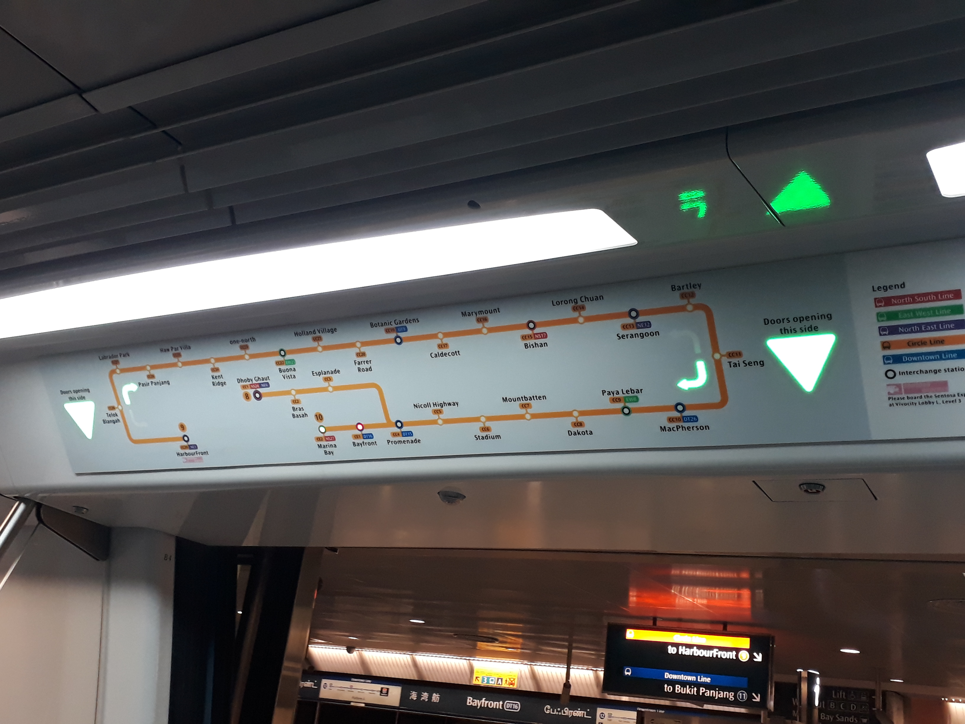 CCL Map